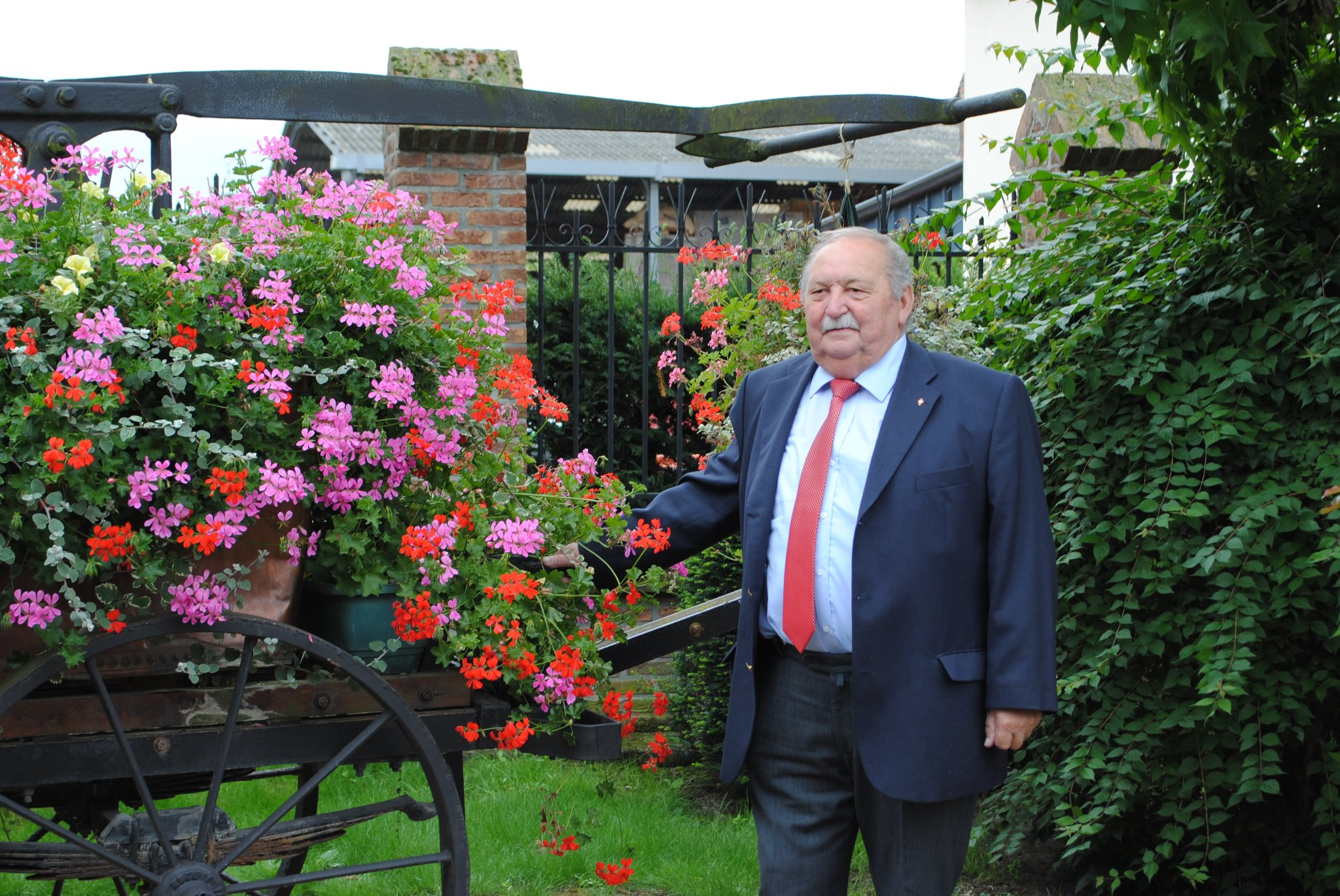 Jean-Marie Huart - Maire de Mastaing